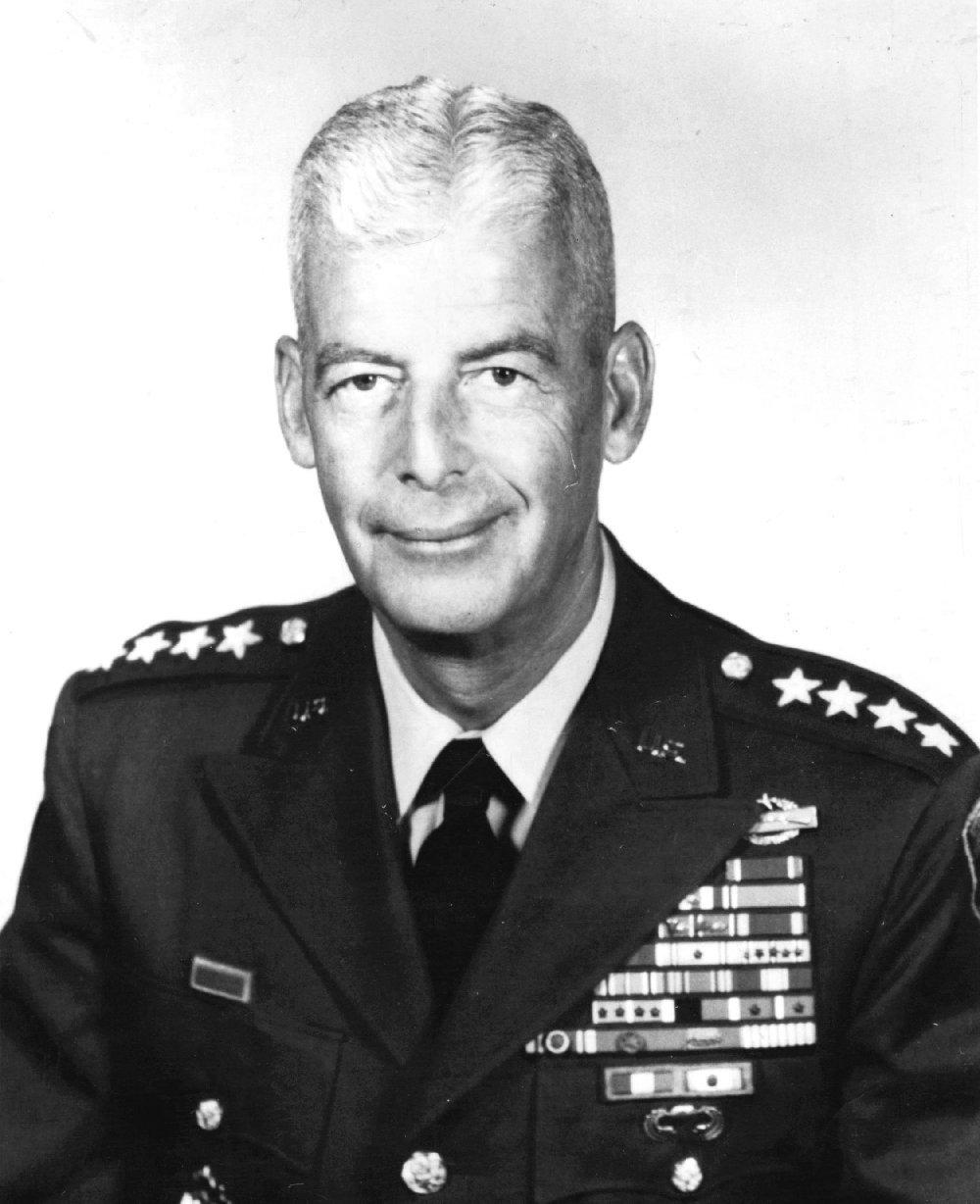 General Paul L. Freeman, Jr. from [1]